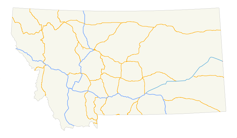 Map of all U.S. and Interstate highways in Montana Modified from File:I-94 (MT) map.svg